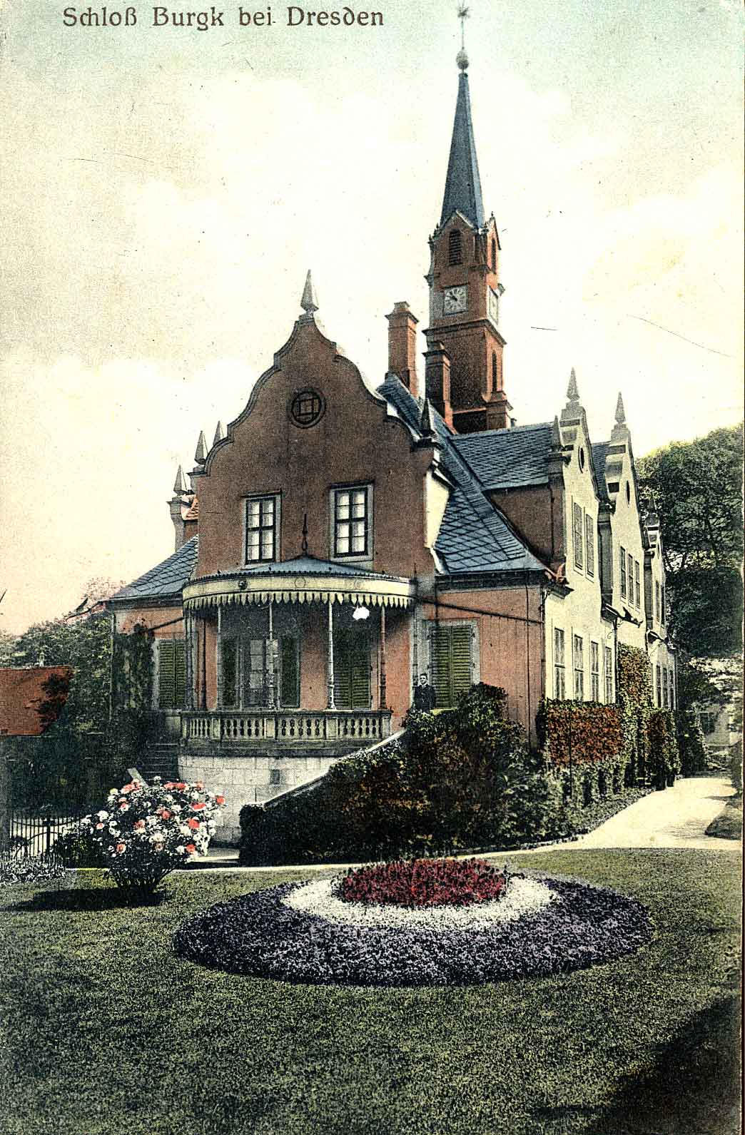 Manor-house of a manorial estate, called Schloß Burgk. Part of a compound of workshops, stables, collieries and peasants´ cottages. Foundations about 1507. Production of vitriol and alum 1558–1581. Large-scale coal-mining since 1780, co-ordinated with acquired iron-hammers and rolling-mills since 1827. First gas-lamp in the manor house in 1828. Dwelling in the house discontinued in 1878, coal-mining ceased in 1930. The agricultural use remained, with importance after 1945. 1946 state-ownership. The manor–house was conveyed to the city of Freital, which installed a museum focussing upon coal-mining, industrialization and five important collections of paintings.